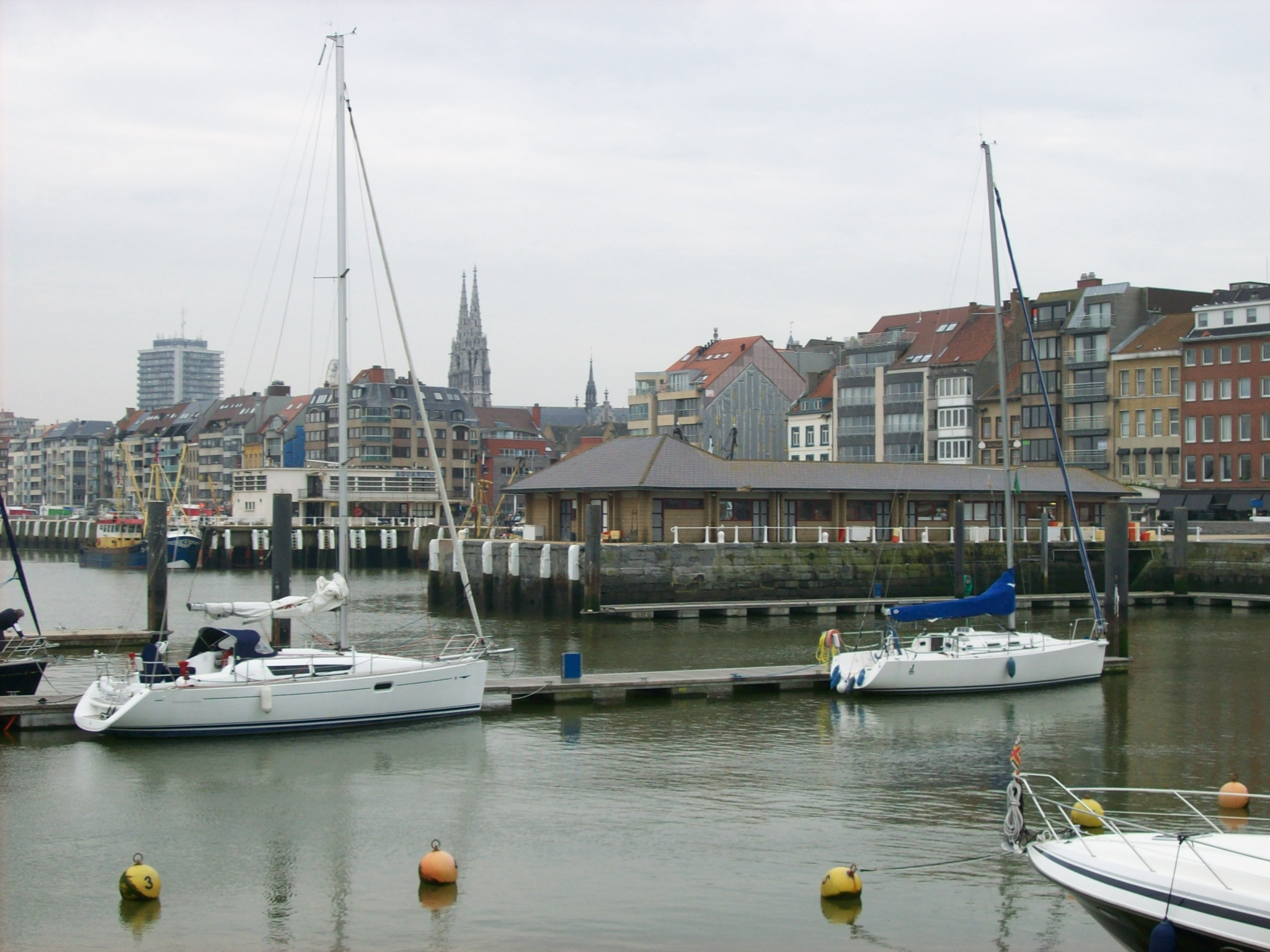 The Vistrap, Ostend